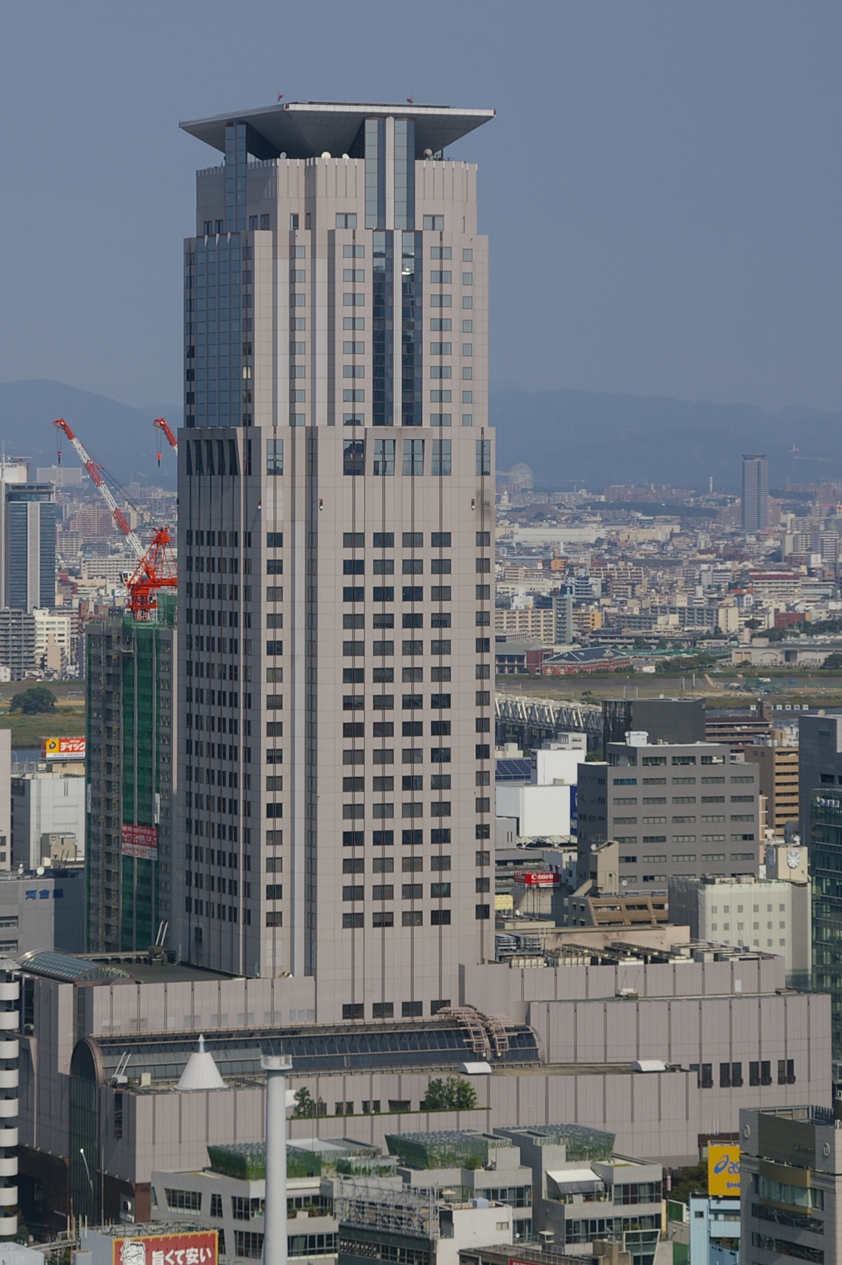 Photograph of Hankyu Chayamachi Building, also called as Applause Tower, in Kita-ku, Osaka, Osaka Prefecture, Japan.